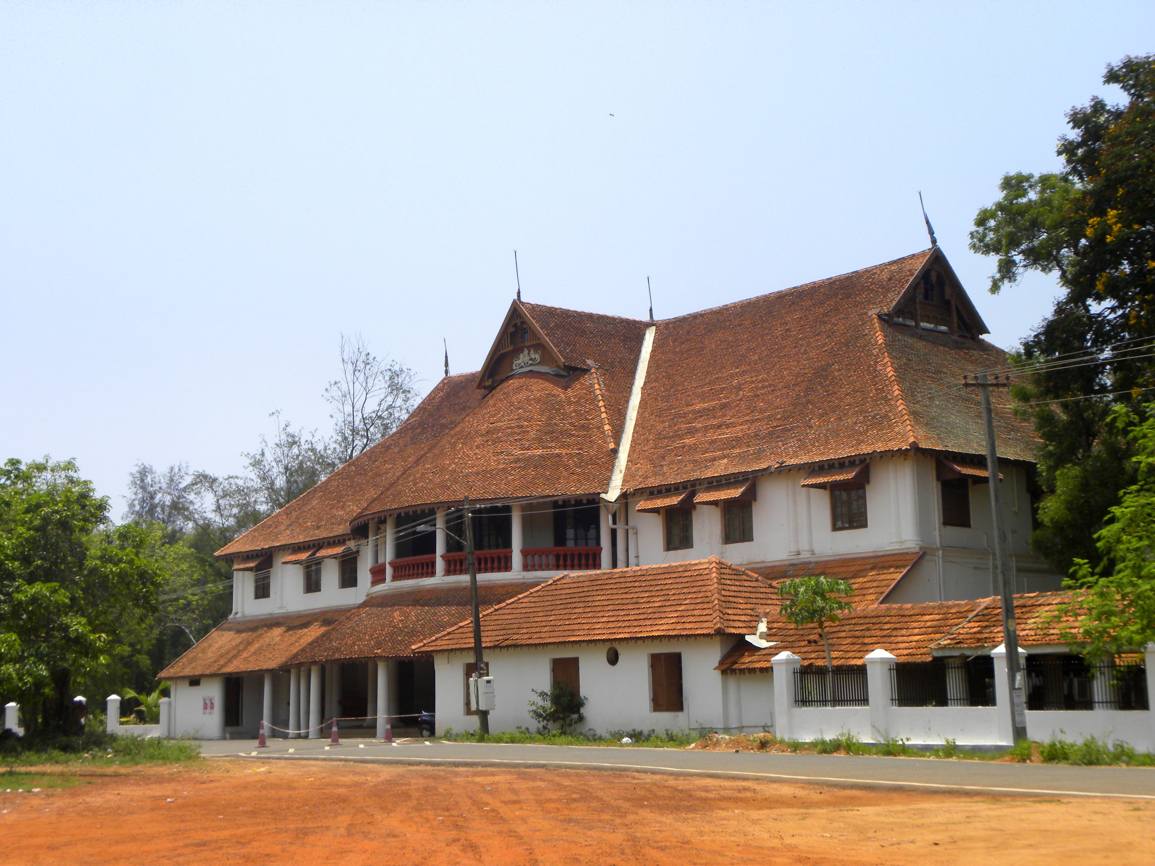 British Residency - One of the historic buildings in Kollam. Till 1829, Quilon was the capital of the Travancore State with the headquarters of the British Residency situated here.